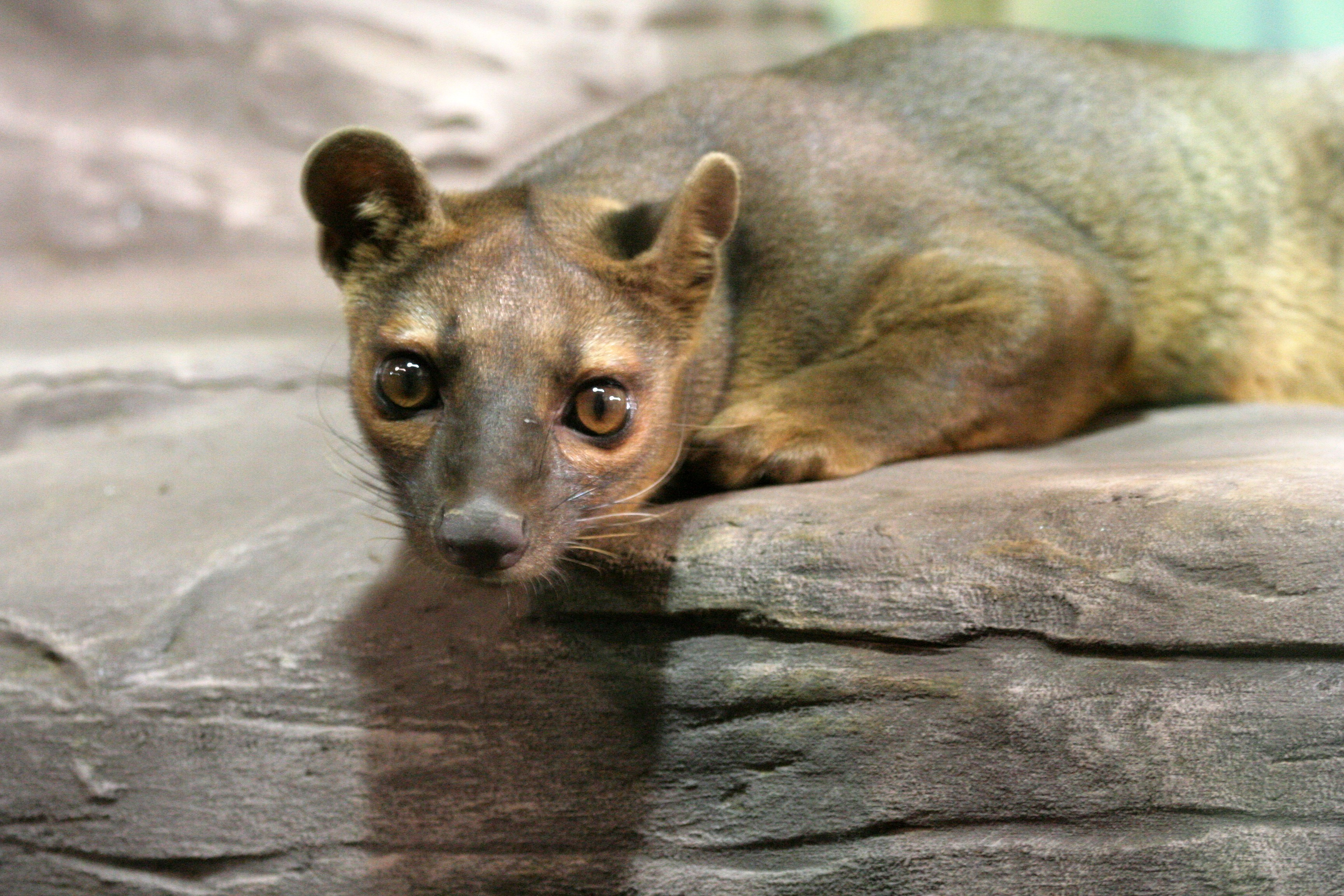 Fossa (Cryptoprocta ferox) at the Rosamond Gifford Zoo, Syracuse, New York.